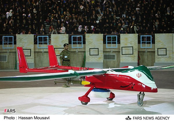 Hamaseh UAV unveilling ceremony Iran